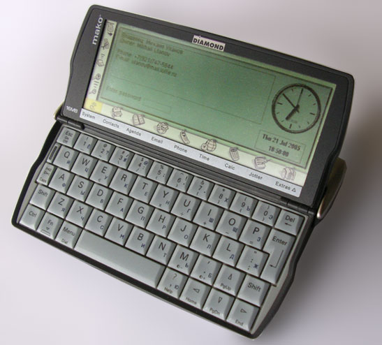 Diamond Mako. Clone of Psion Revo Plus PDA.